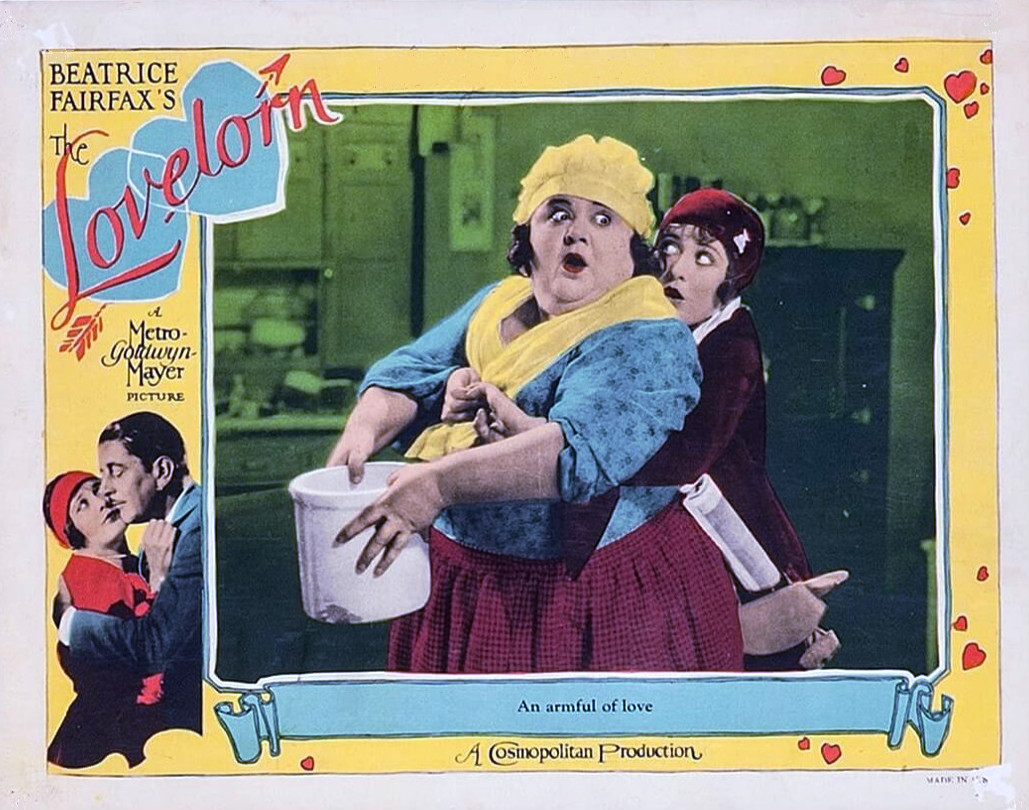 Lobby card for the American romantic drama film The Lovelorn (1927).